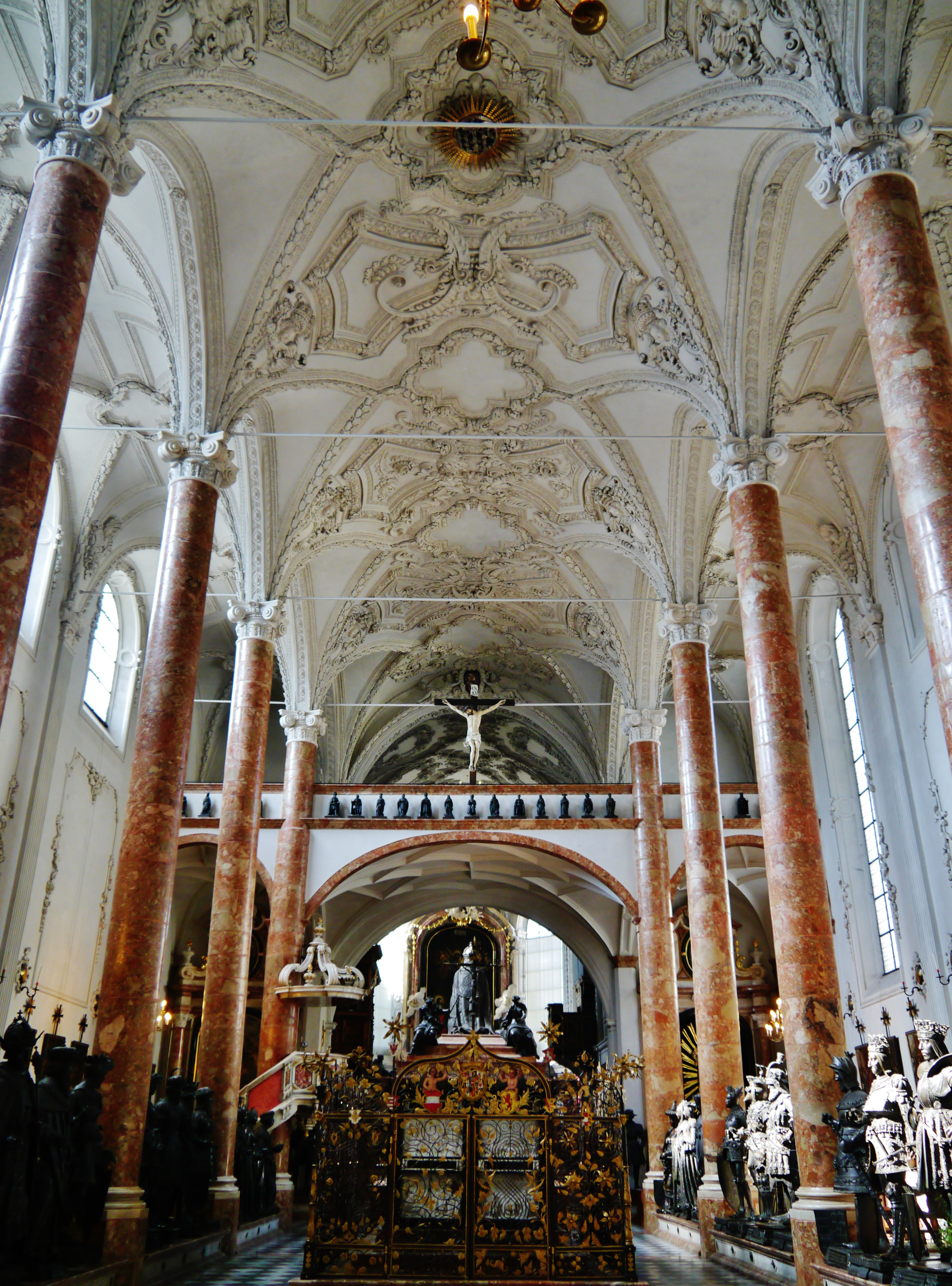 Nave of the Court Church, Innsbruck, Tyrol, Austria